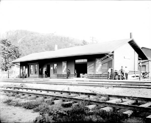 The Wellsburg Erie Railroad station on the main line in Wellsburg, New York.